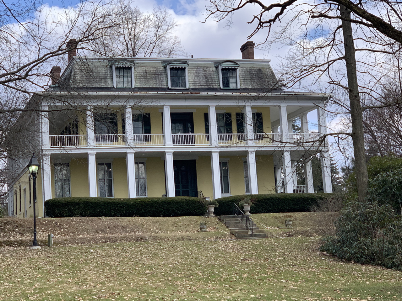 This image shows the Baldwin Reynolds house was built in 1843 by United States Supreme Court Justice Henry Baldwin